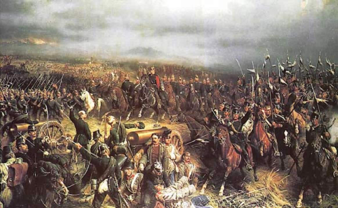 Prussia defeats Austria at Koeniggratz, 3 July 1866 (painting by Christian Sell).